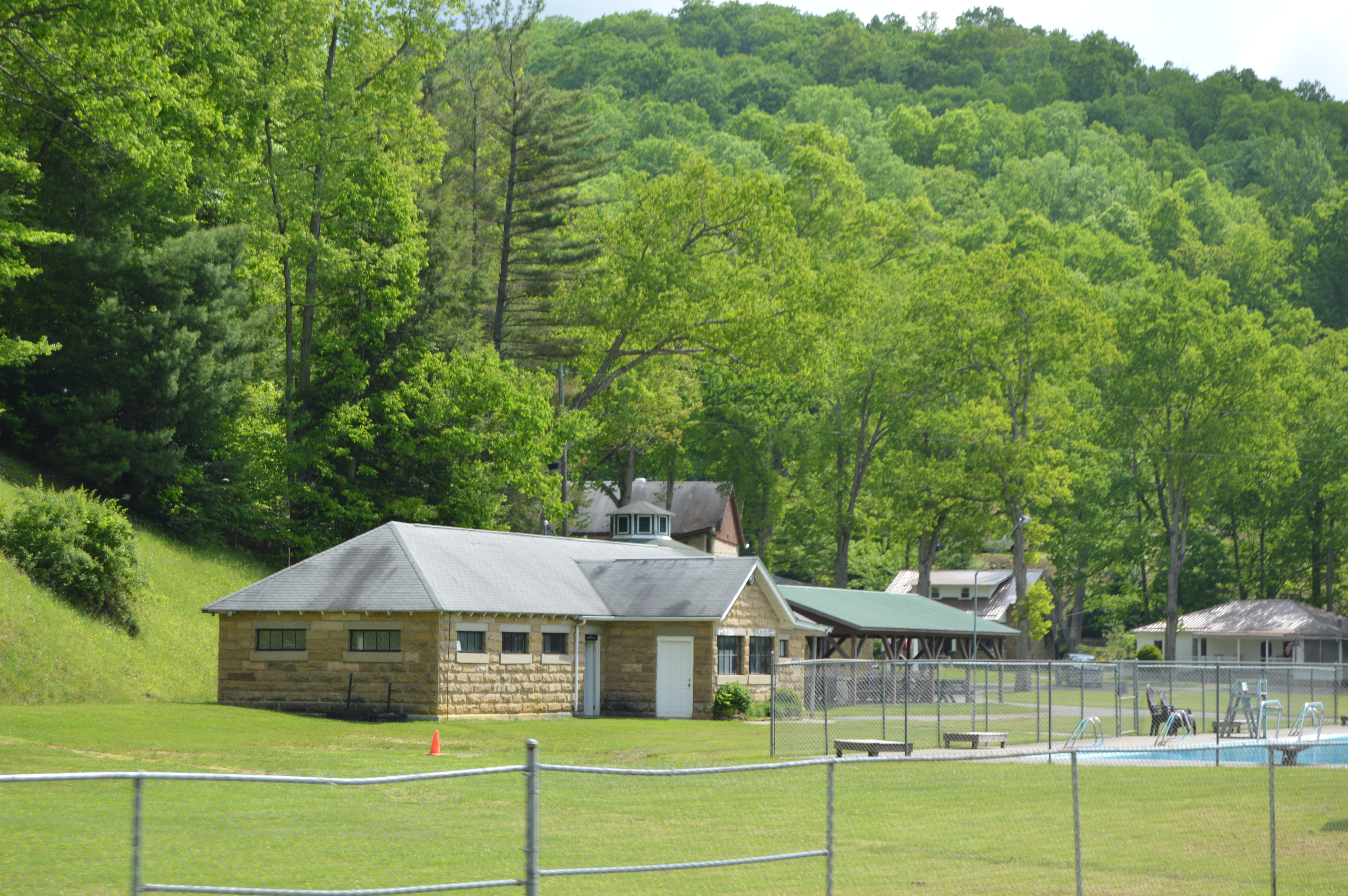 Buildings and the pool at 4-H Camp Caesar, located at 4868 West Virginia Route 20 east of Cowen in Webster County, West Virginia, United States. The complex is listed on the National Register of Historic Places.